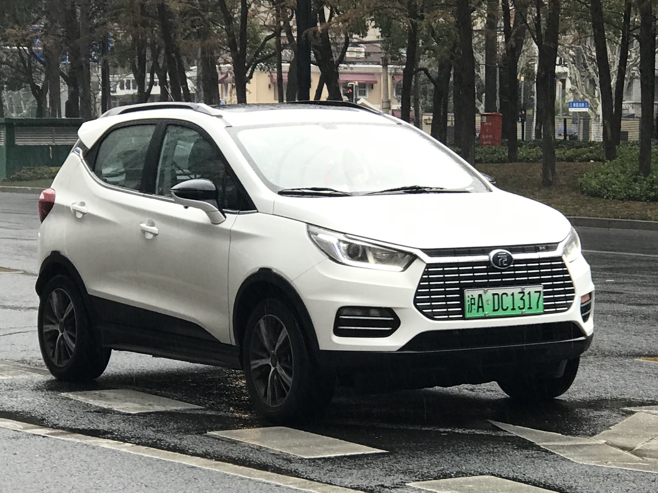 BYD Yuan facelift